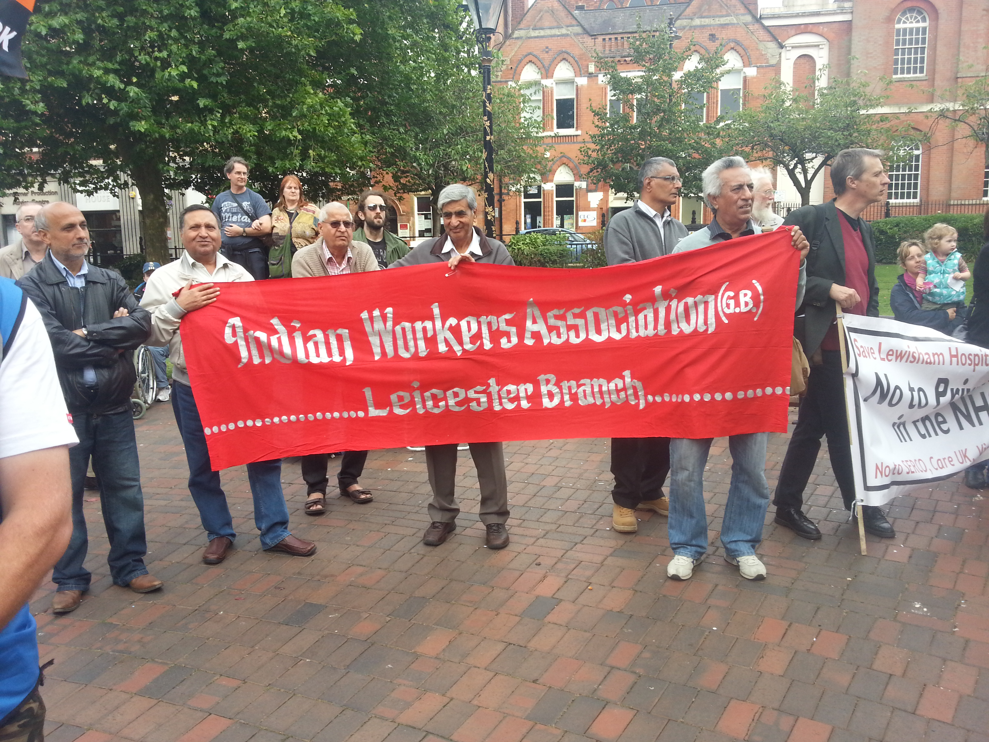 Indian Workers' Association Leicester branch supporting the People's March for the NHS 2014